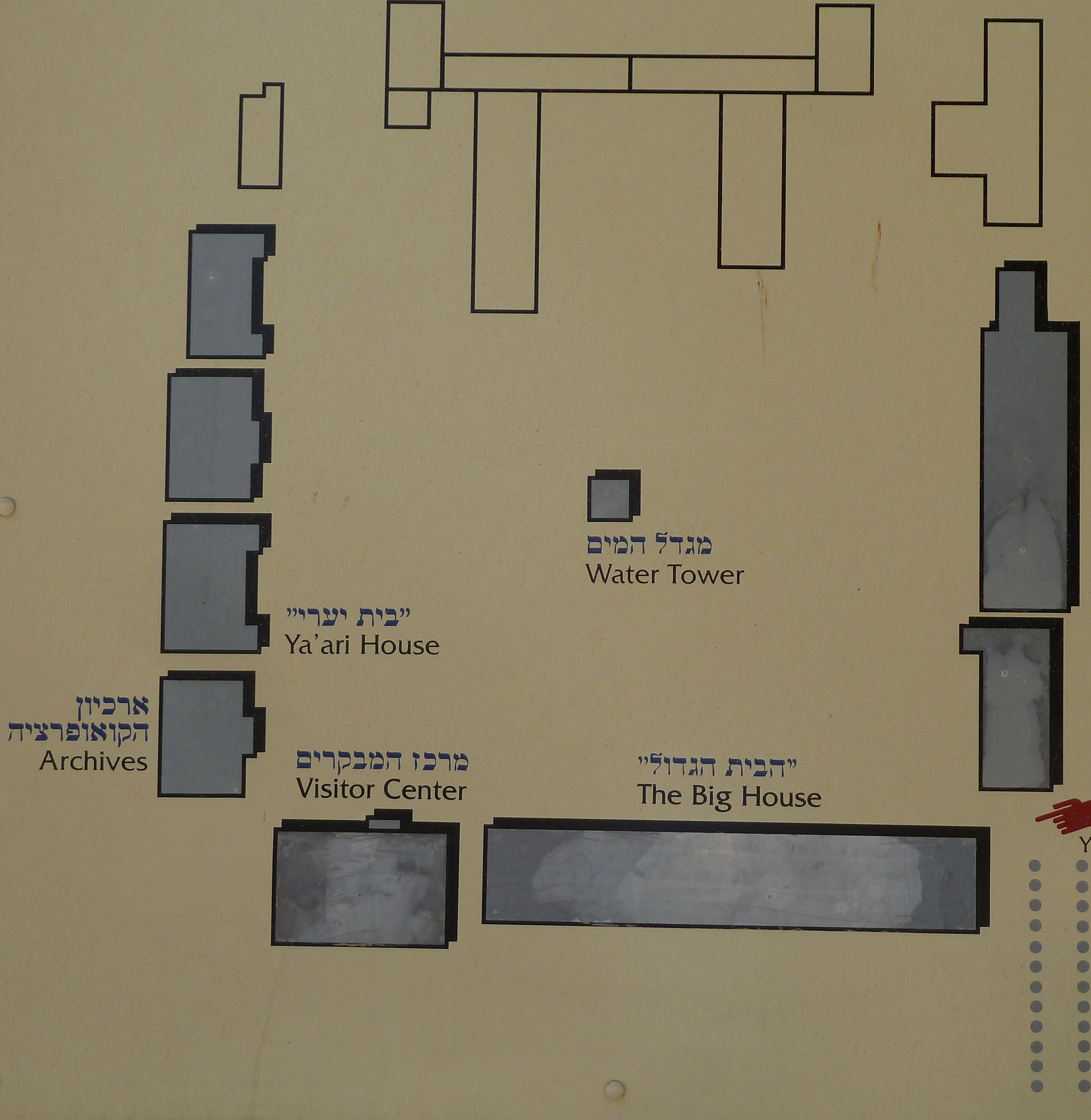 The Large Yard at Merhavia (Merhavia Courtyard)